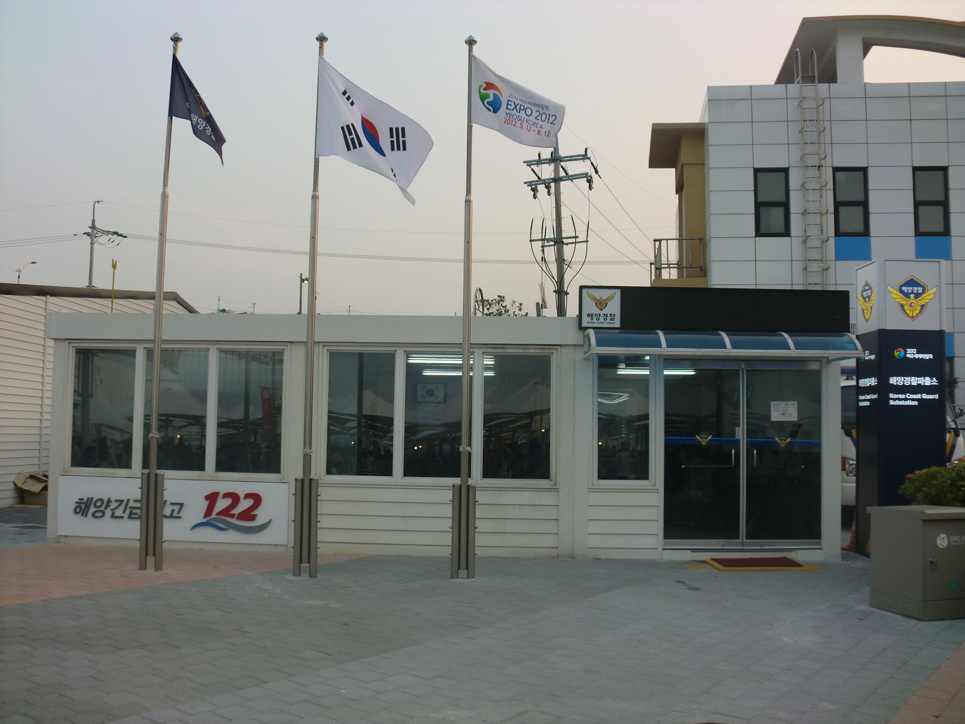 Expo 2012 Korea Coast Guard